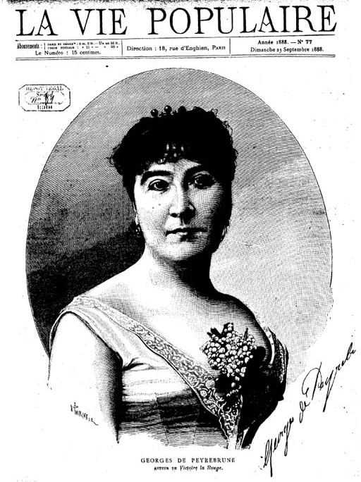 Georges de Peyrebrune French writer (1888)